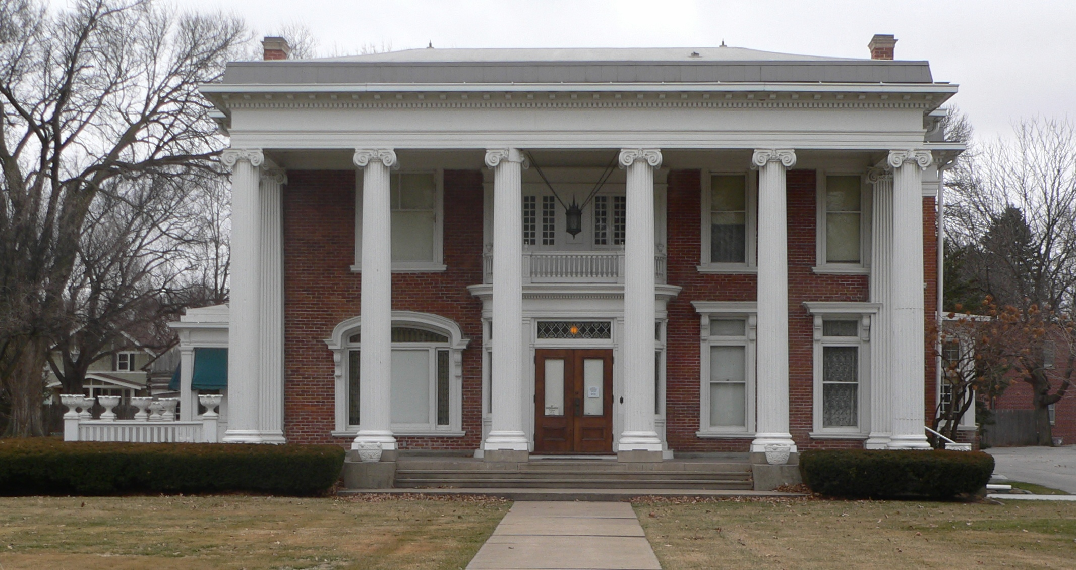 Louis E. May Historical Museum, located in the Nye House at 1643 N. Nye Avenue in Fremont, Nebraska; seen from the east.